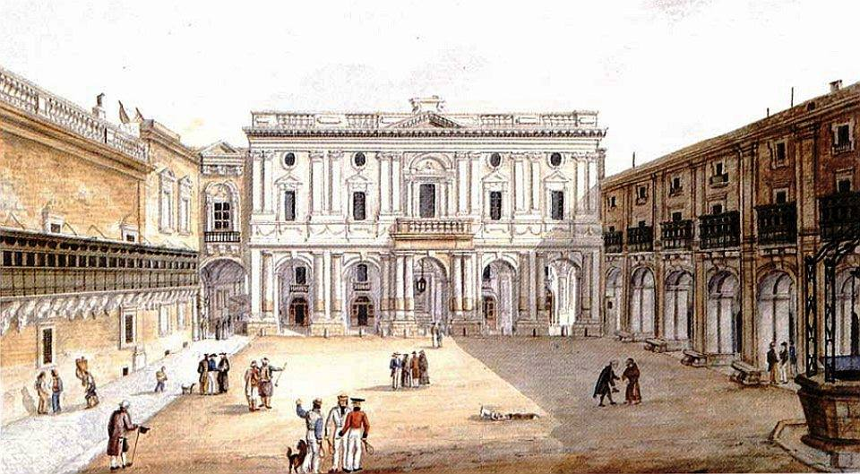 Malta Public Library, Valletta, by Charles de Brocktorff (1775–1850)